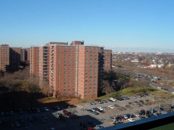 Rochdale Village apartment complex in South Jamaica Queens, New York